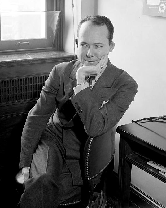 Informal photo of Rep. Joe Hendricks, Democrat from Fla., 2-26-40. (original text)